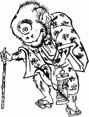 Hitotsume (一つ目) from Ōmukashi-bakemono-sōshi (大昔化物双紙)